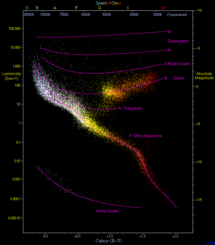 Hertzsprung–Russell diagram. A plot of luminosity (absolute magnitude) against the colour of the stars ranging from the high-temperature blue-white stars on the left side of the diagram to the low temperature red stars on the right side. "This diagram below is a plot of 22000 stars from the Hipparcos Catalogue together with 1000 low-luminosity stars (red and white dwarfs) from the Gliese Catalogue of Nearby Stars. The ordinary hydrogen-burning dwarf stars like the Sun are found in a band running from top-left to bottom-right called the Main Sequence. Giant stars form their own clump on the upper-right side of the diagram. Above them lie the much rarer bright giants and supergiants. At the lower-left is the band of white dwarfs – these are the dead cores of old stars which have no internal energy source and over billions of years slowly cool down towards the bottom-right of the diagram." Converted to png and compressed with pngcrush.